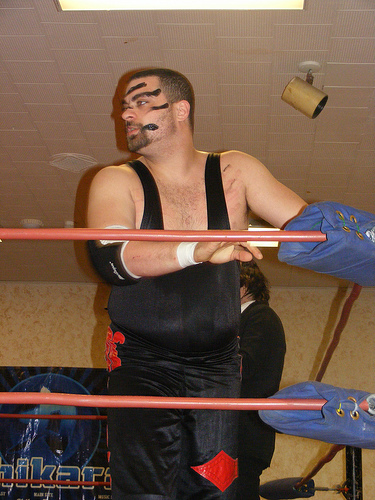 Professional wrestler Eddie Kingston during a Chikara show.